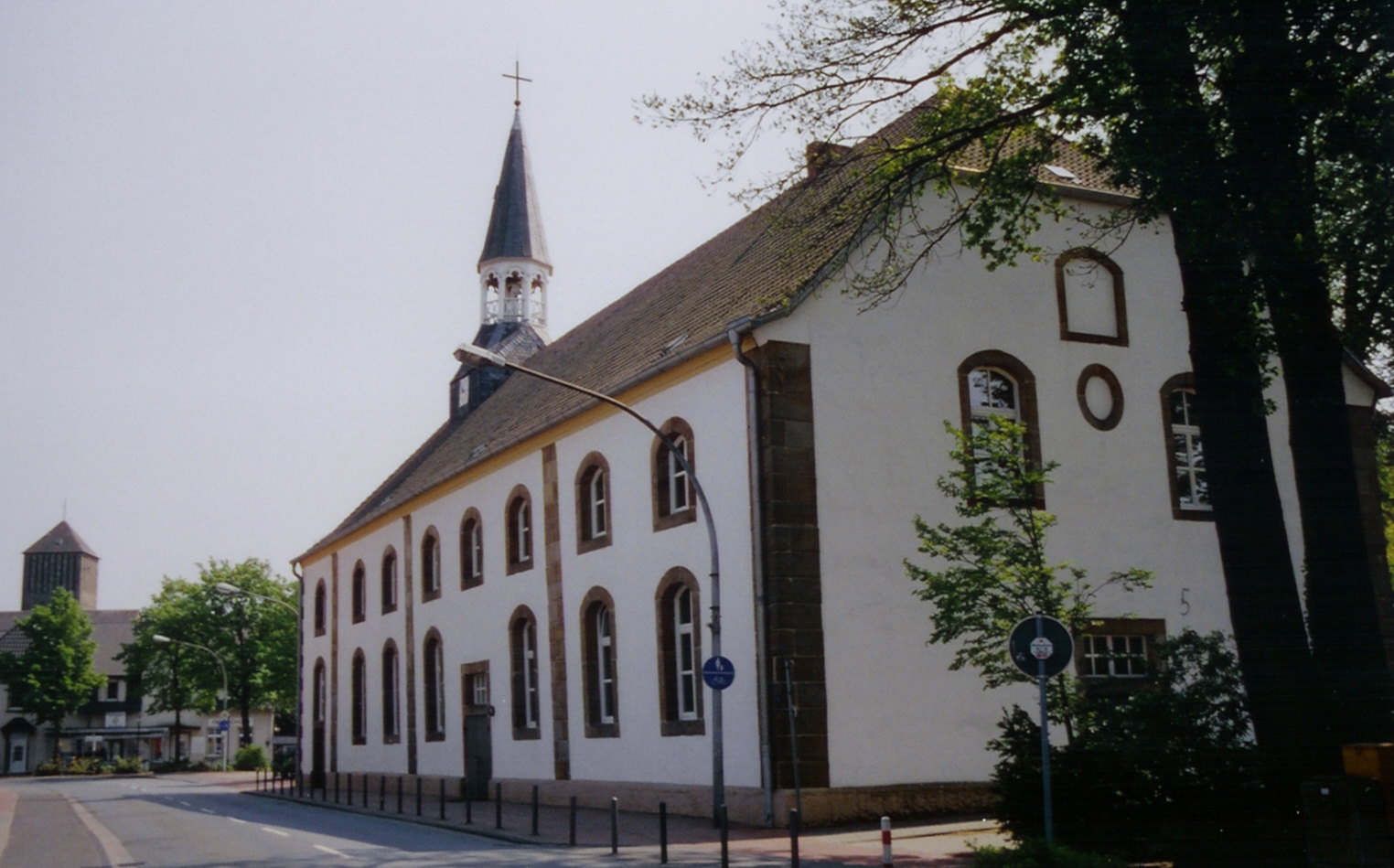 DIO Youth Club (Dionysius-Jugendheim (DIO)) in Recke, Kreis Steinfurt, North Rhine-Westphalia, Germany. The youth club building is the former Roman Catholic parish church St Dionysius.